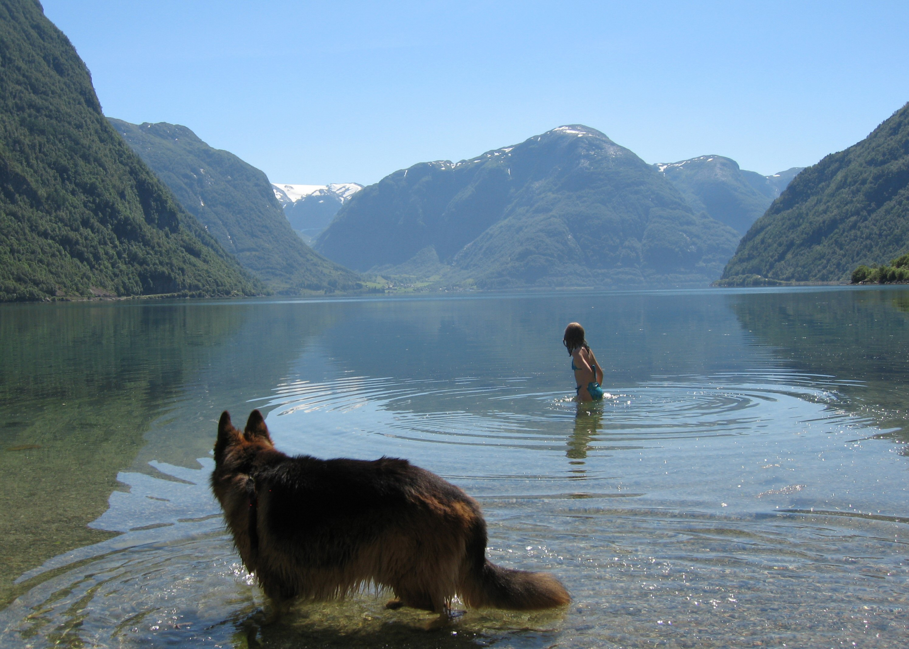 Nordrepollen, Maurangerfjorden in western Norway. View of bathing girl and dog that are looking at Sundal and the glacier Folgefonna.